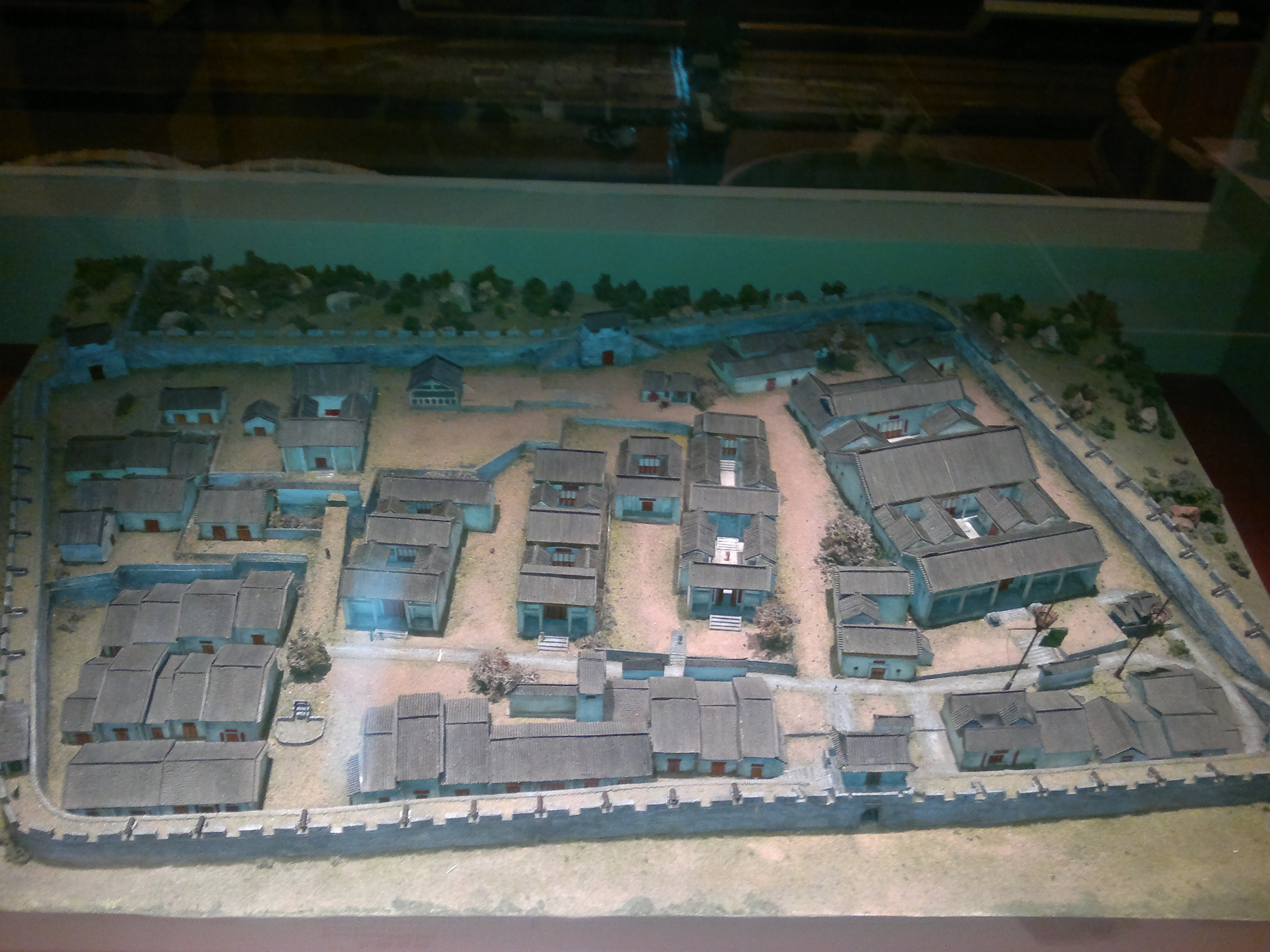 Kowloon Walled City Early Stage Model in History Museum